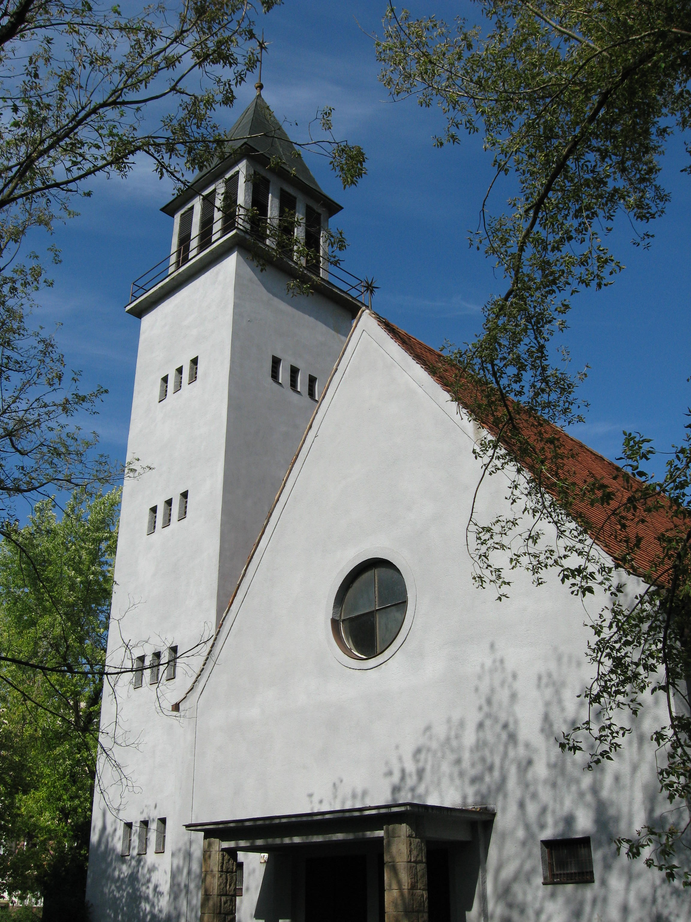 Calvinist Church in Nové Zámky